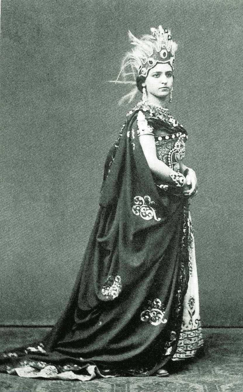 Caroline von Gomperz-Bettelheim (1845-1925), jewish hungarian-austrian pianist and court singer, seen as Selica in L'Africaine by Giacomo Meyerbeer